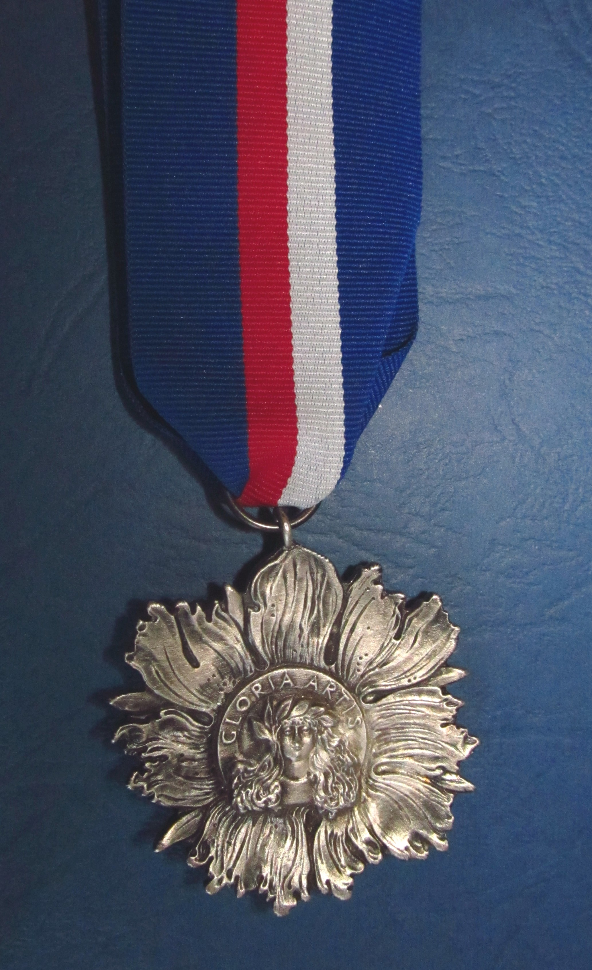 Silver Gloria Artis Medal (Poland) - reverse